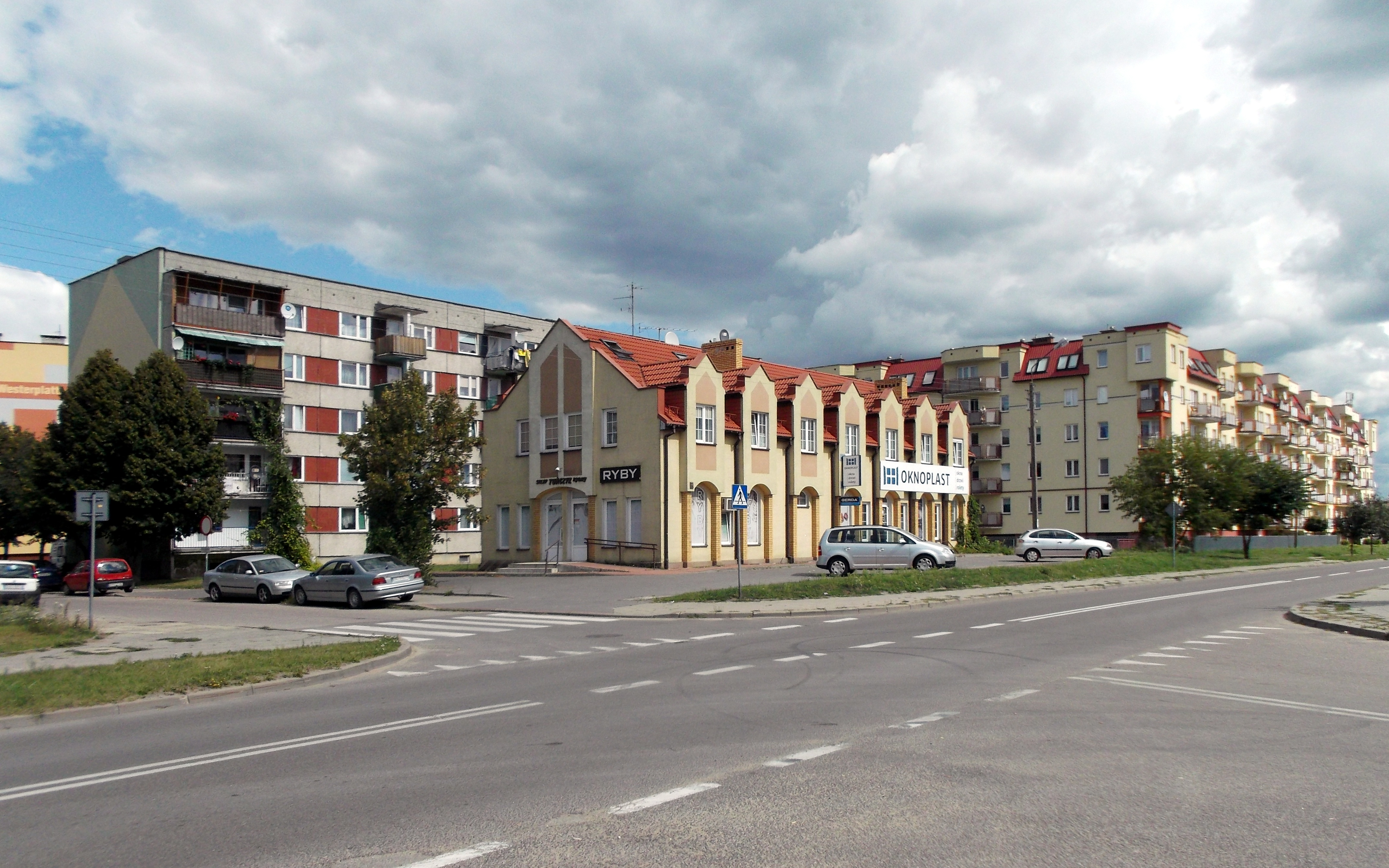 Obrońców Westerplatte Street in Augustów, Poland.